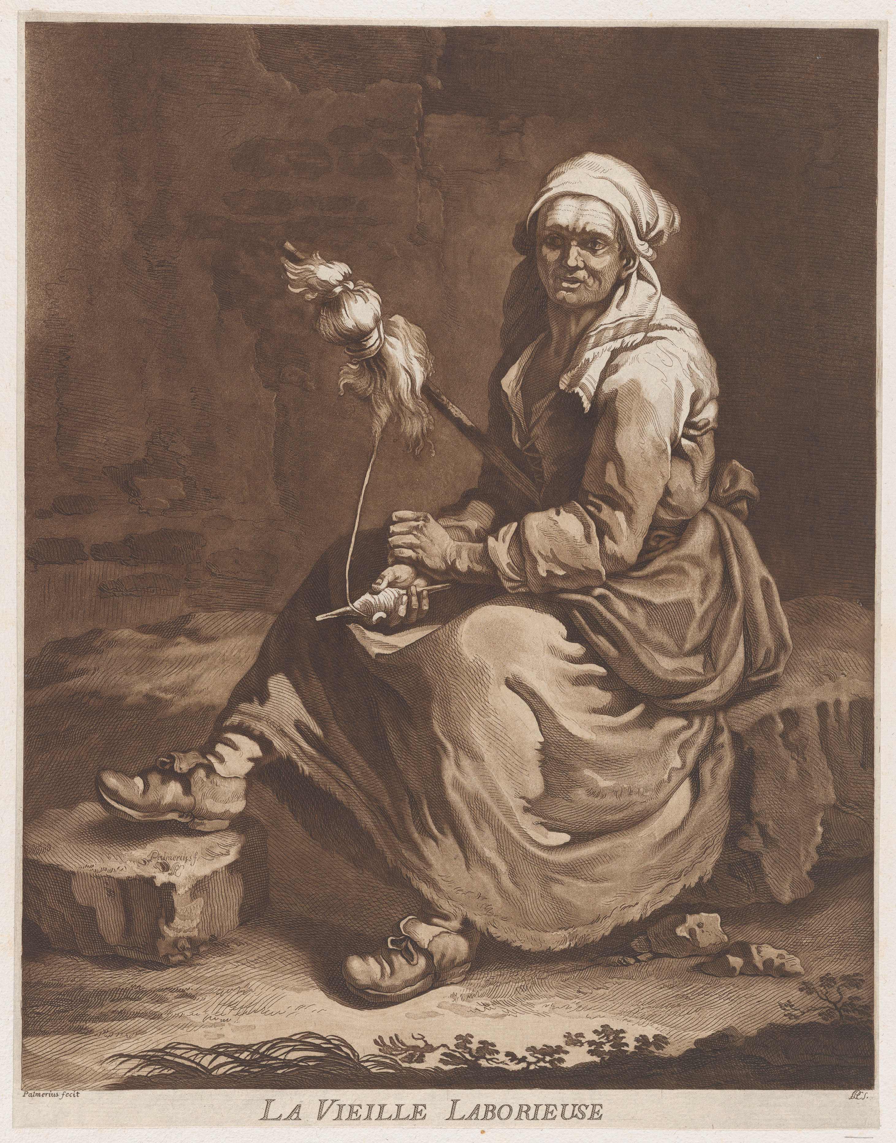 Print; Prints